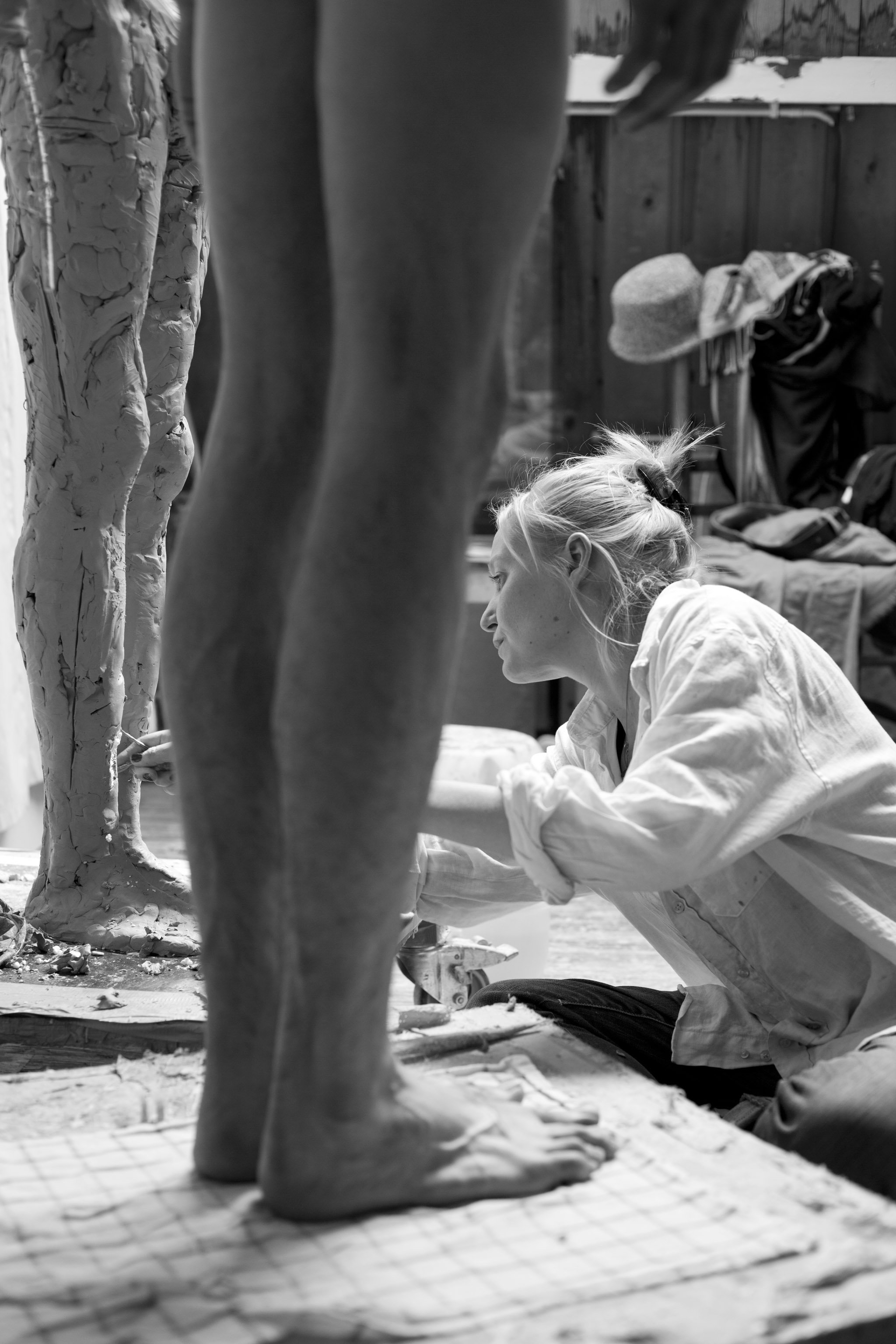 Lotta Blokker